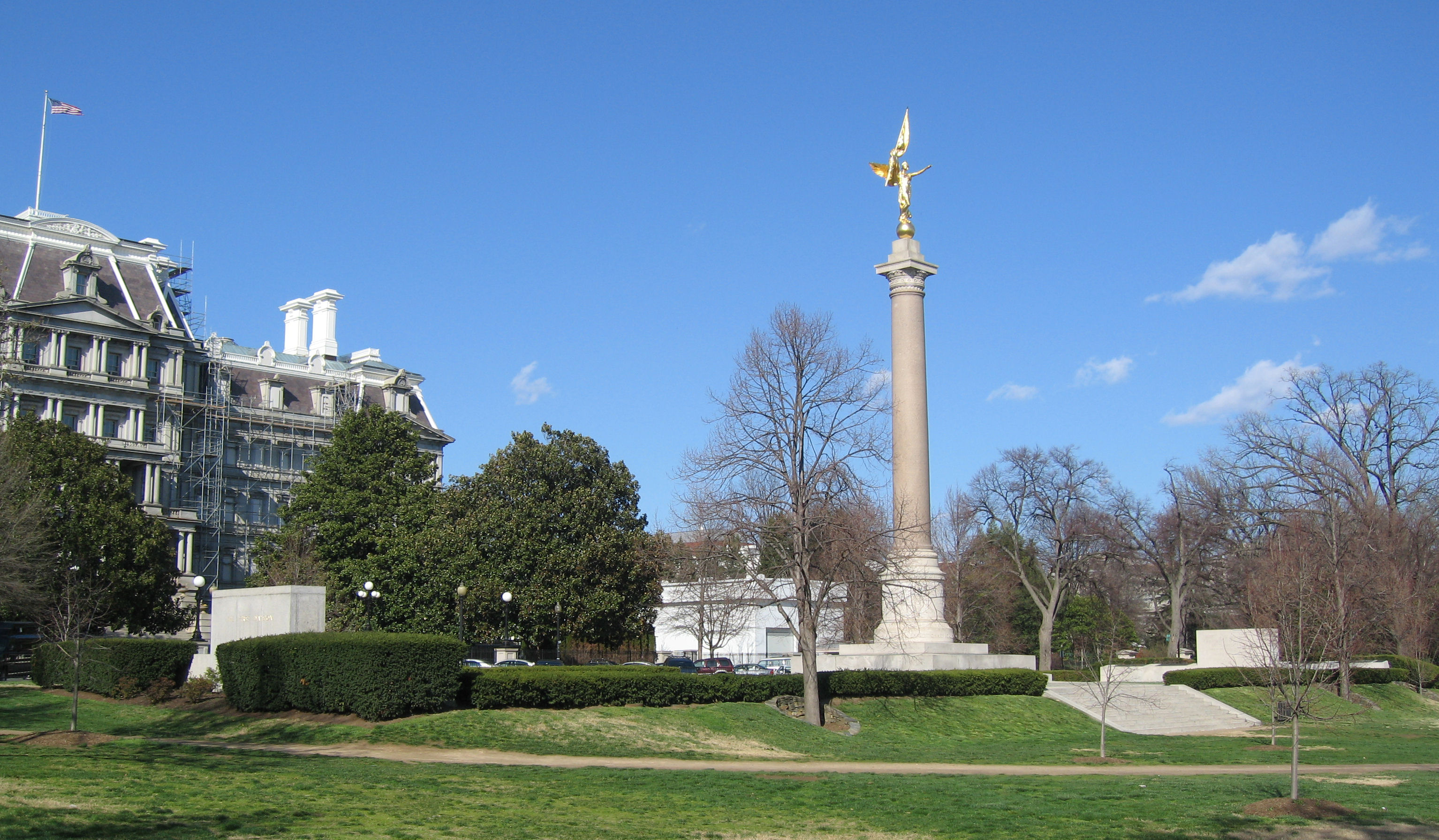 Oblique view of the west end of First Division Monument located in President's Park, south of State Place Northwest between 17th Street Northwest and West Executive Avenue Northwest in Washington, D.C., United States. The building on the left side of the photograph is the south side of the Dwight D. Eisenhower Executive Office Building. Photograph taken in March 2008 near 17th Street facing east.